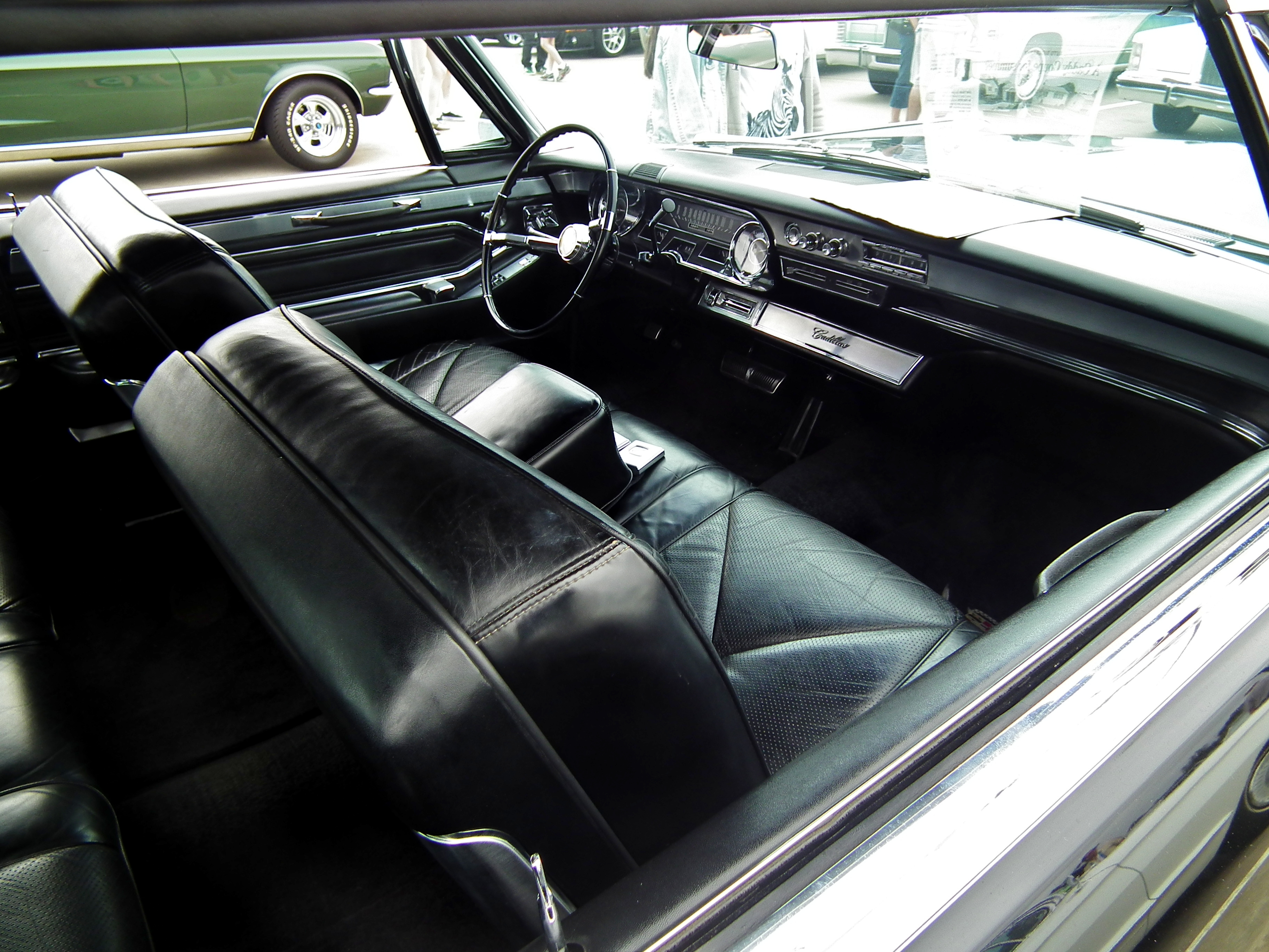 1965 Cadillac Coupe deVille interior. Taken at the 2013 New South Wales All American Day, held at Castle Towers Shopping Centre, Castle Hill, Sydney.